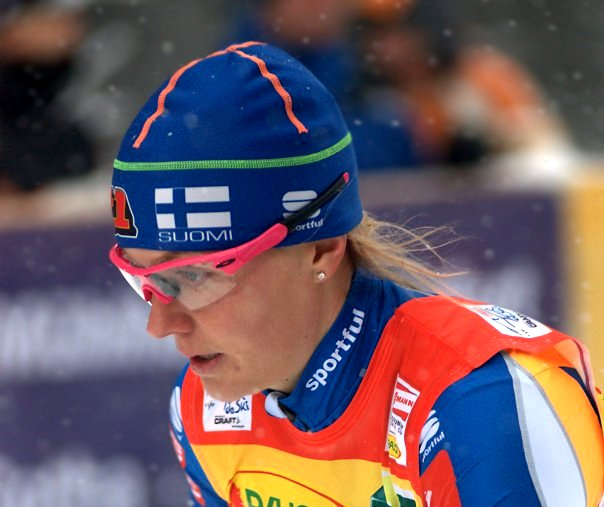 Virpi Kuitonen at the Tour de Ski 2010 in Oberhof